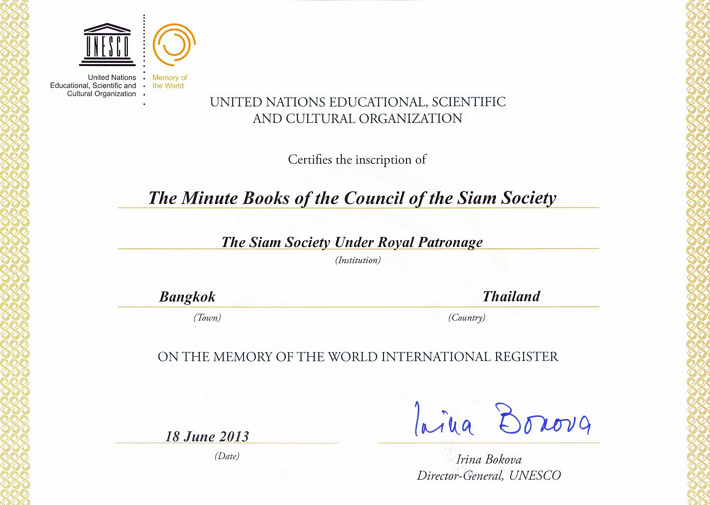 On 18 June 2013, the Minute Books of the Siam Society were inscribed in UNESCO Memory of the World. This is the official certificate.